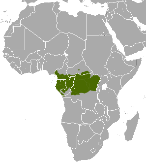 Crested Mona Monkey (Cercopithecus pogonias) range